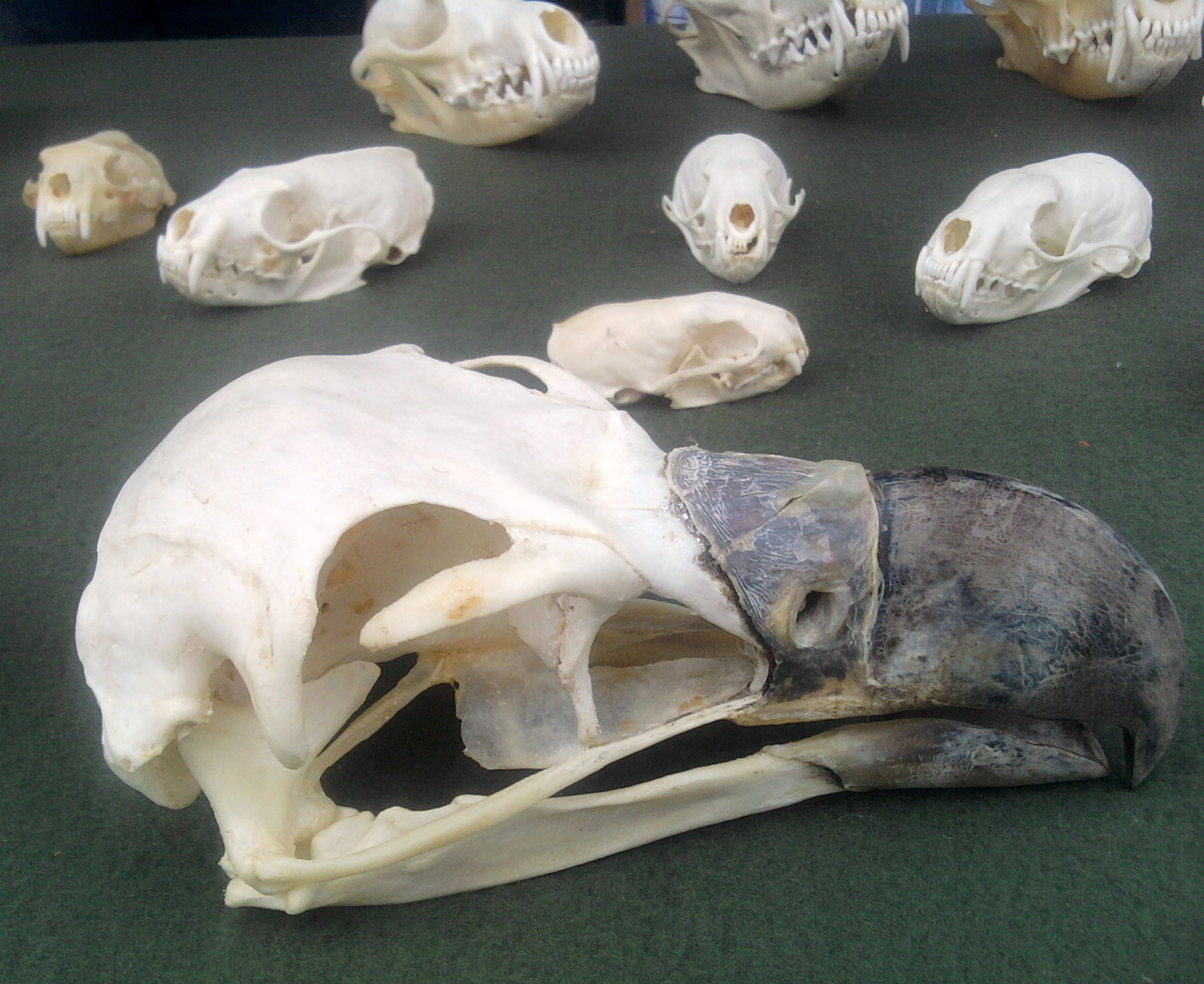 Bird skull from Asia (Russia)